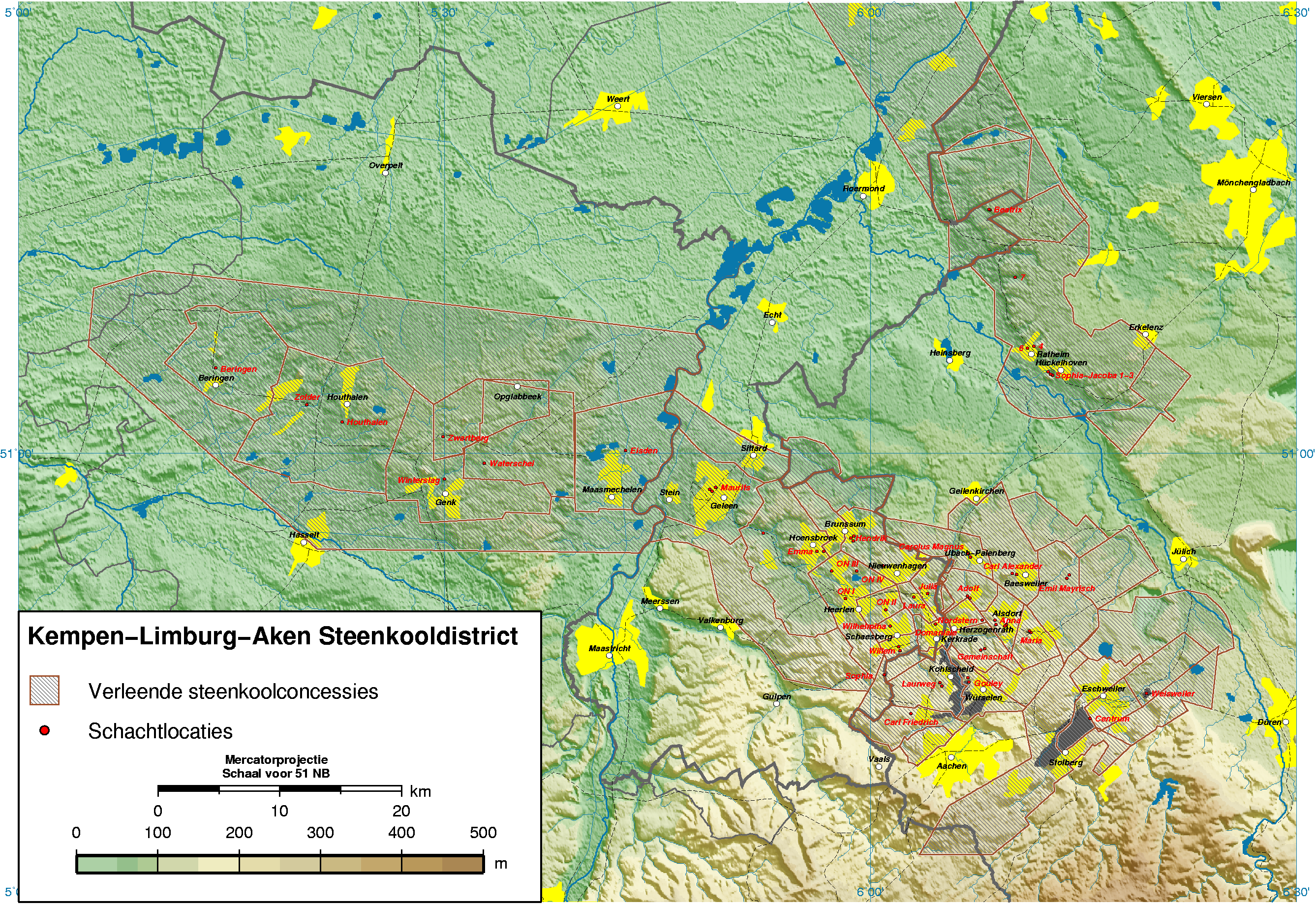 Overview of coal mining concessions in the Campine-Limburg-Aachen coal district (Belgium, Netherlands,Germany)